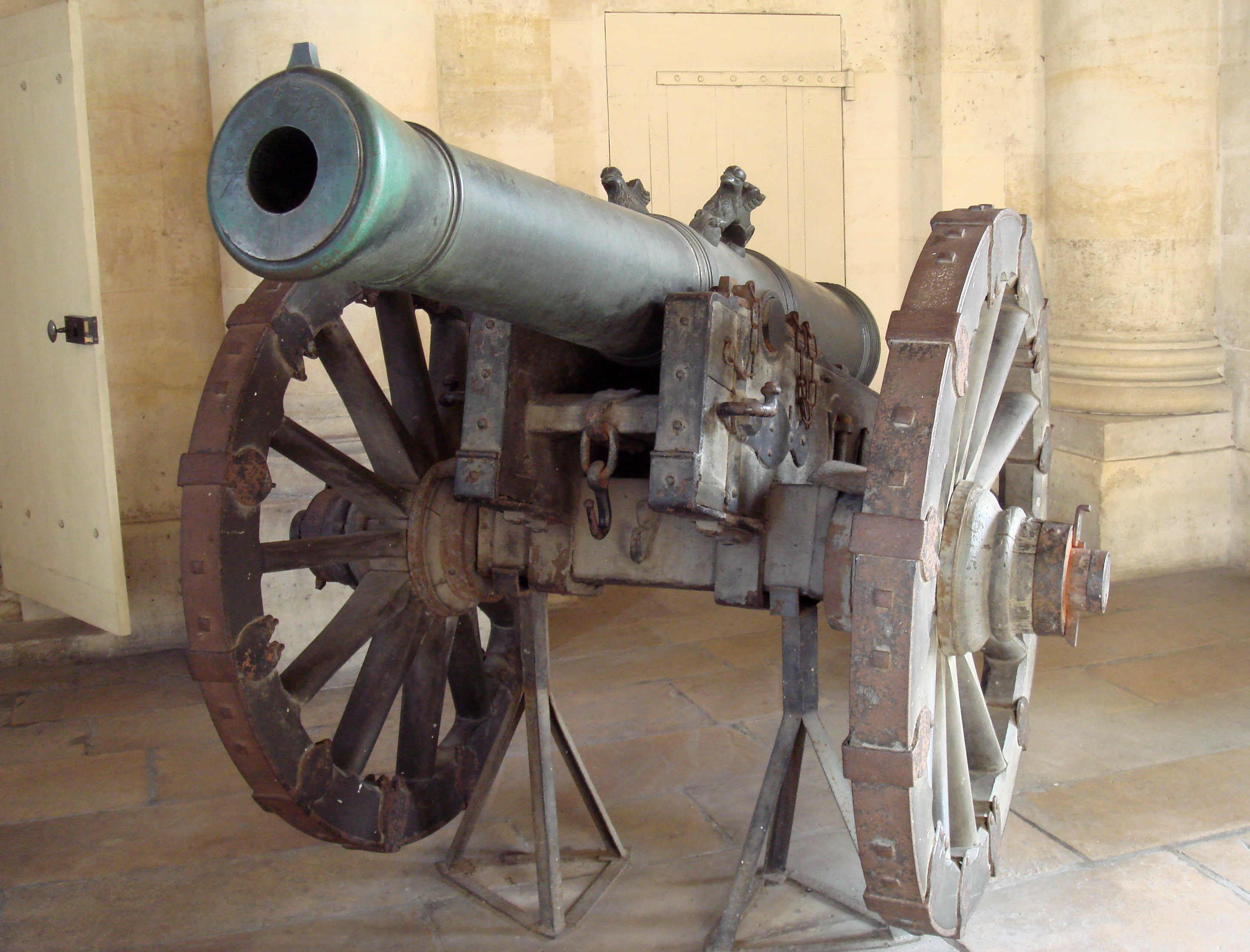 Prussian Brummer 12-pdr (Not Canon_Gribeauval_1780_front)